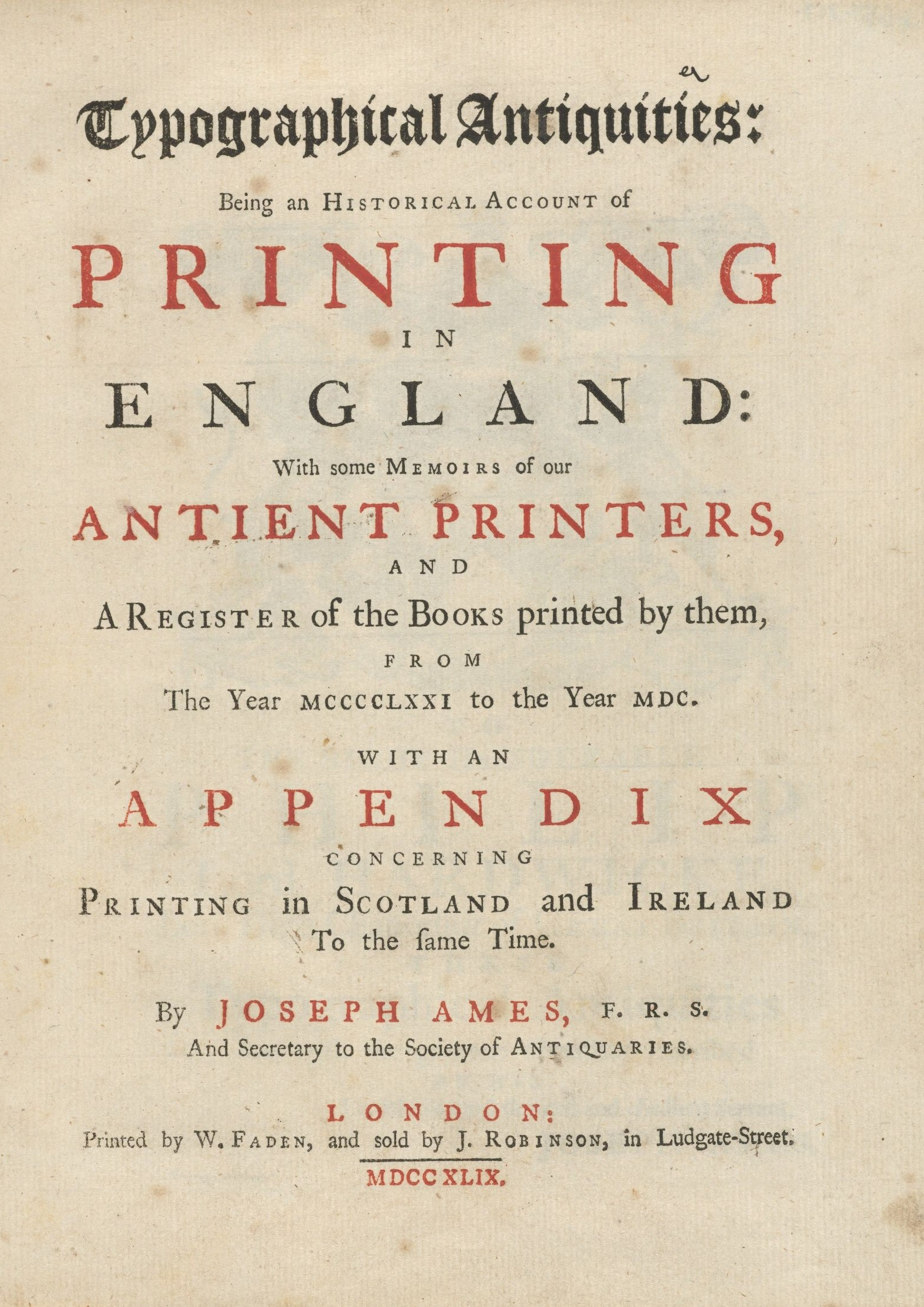 Title page to Typographical antiquities: being an historical account of printing in England, London: 1749, by Joseph Ames (1689-1759). *65J-217, Houghton Library, Harvard University